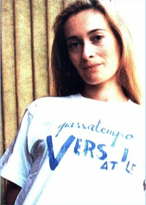 Caterina Davinio wearing a "Poetry T-Shirt", Rome, 1990